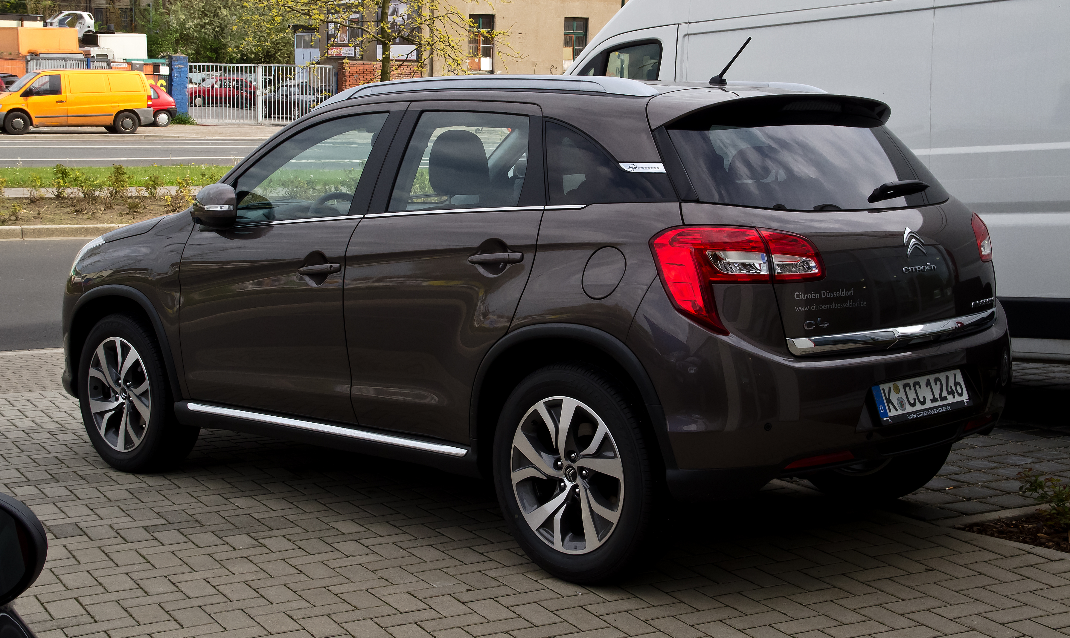 Citroën C4 Aircross HDi 150 Stop & Start Exclusive